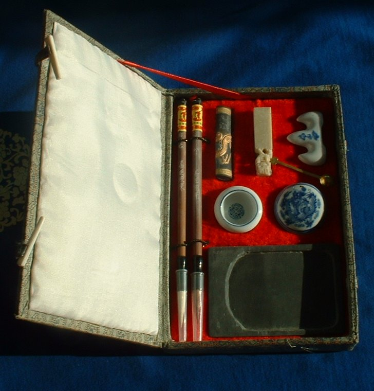 Four treasures of Chinese calligraphy (zh-s: 文房四宝, pinyin: wénfángsìbǎo)